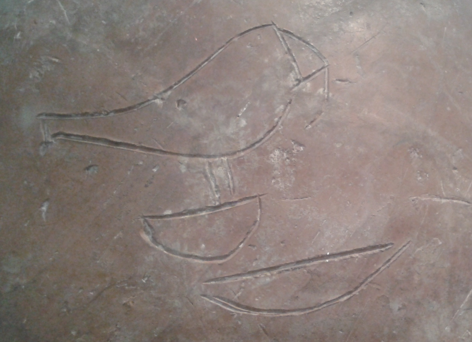 Large vessel inscribed with the name of king Iry-Hor, from his tomb at Abydos, now in the Ashmolean Museum, Oxford.